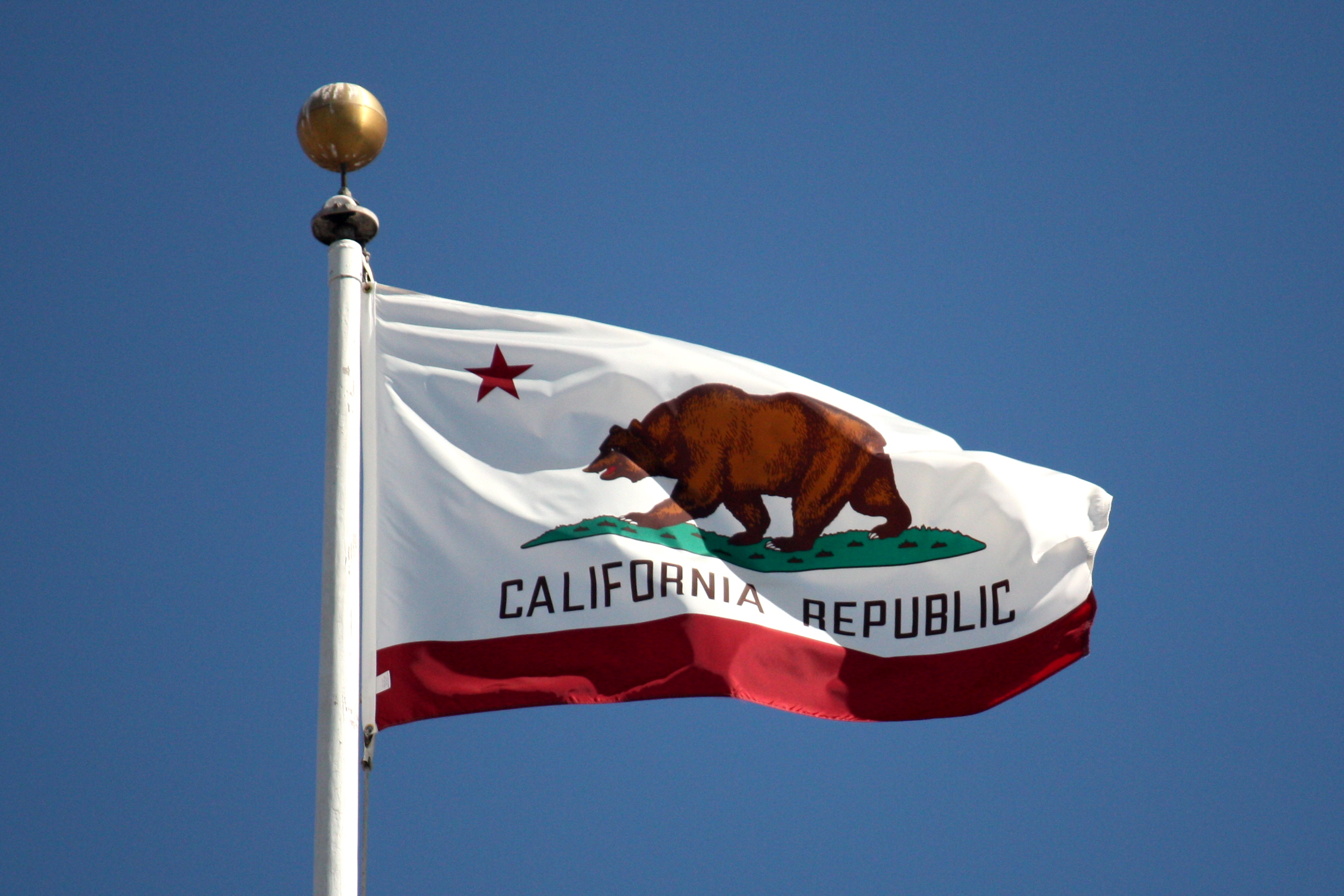 The flag of California, flying at San Francisco City Hall, California